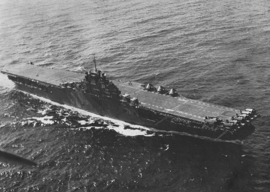 The U.S. Navy aircraft carrier USS Kearsarge (CV-33) underway in the Atlantic Ocean, in 1947.